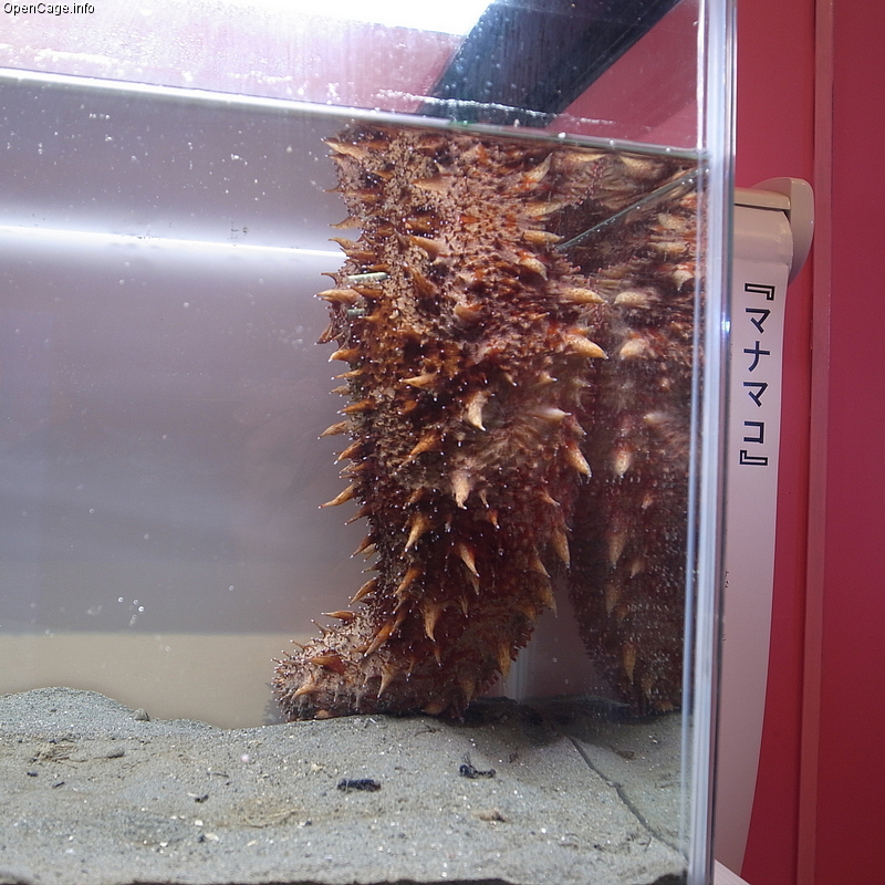 Japanese common sea cucumber Apostichopus japonicus (Selenka, 1867) at Suma Aqualife Park, Japan. Classis:Holothuroidea Ordo:Aspidochirotida Familia:Stichopodidae Genus: Apostichopus